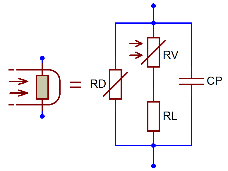 Approximation schematic of a light-dependent (CdS or CdSe) resistor Rd: dark (leakage) resistance (megaOhm range) Rl: light (residual) resistance (hundred Ohm to a few kiloOhm) Rv: idealized variable resistance, inverse proportion to illuminance Cp: parasitic capacitance, a few picoFarads Based on Figure 2 from: Audiohm Optocouplers: Audio Characteritics, Silonex Corp. The textbook concept behind the schematic is not copyrightable.